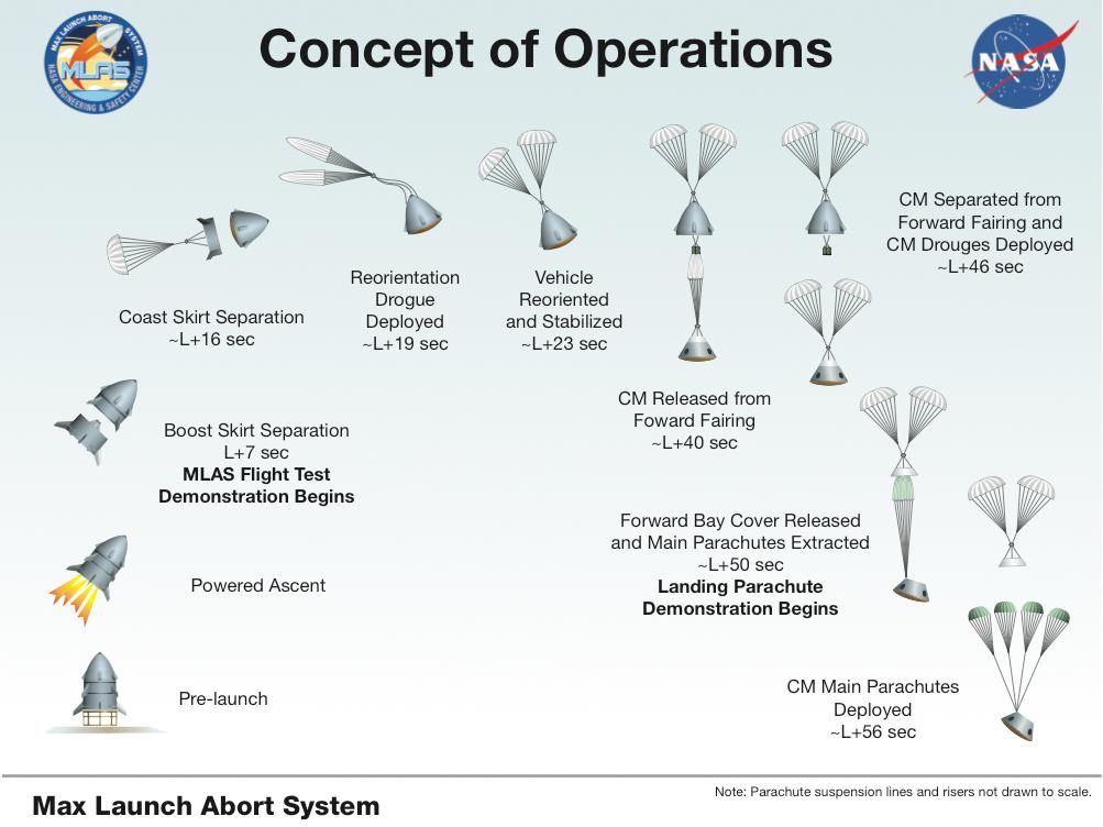 Max Launch Abort System test vehicle concept of flight operations